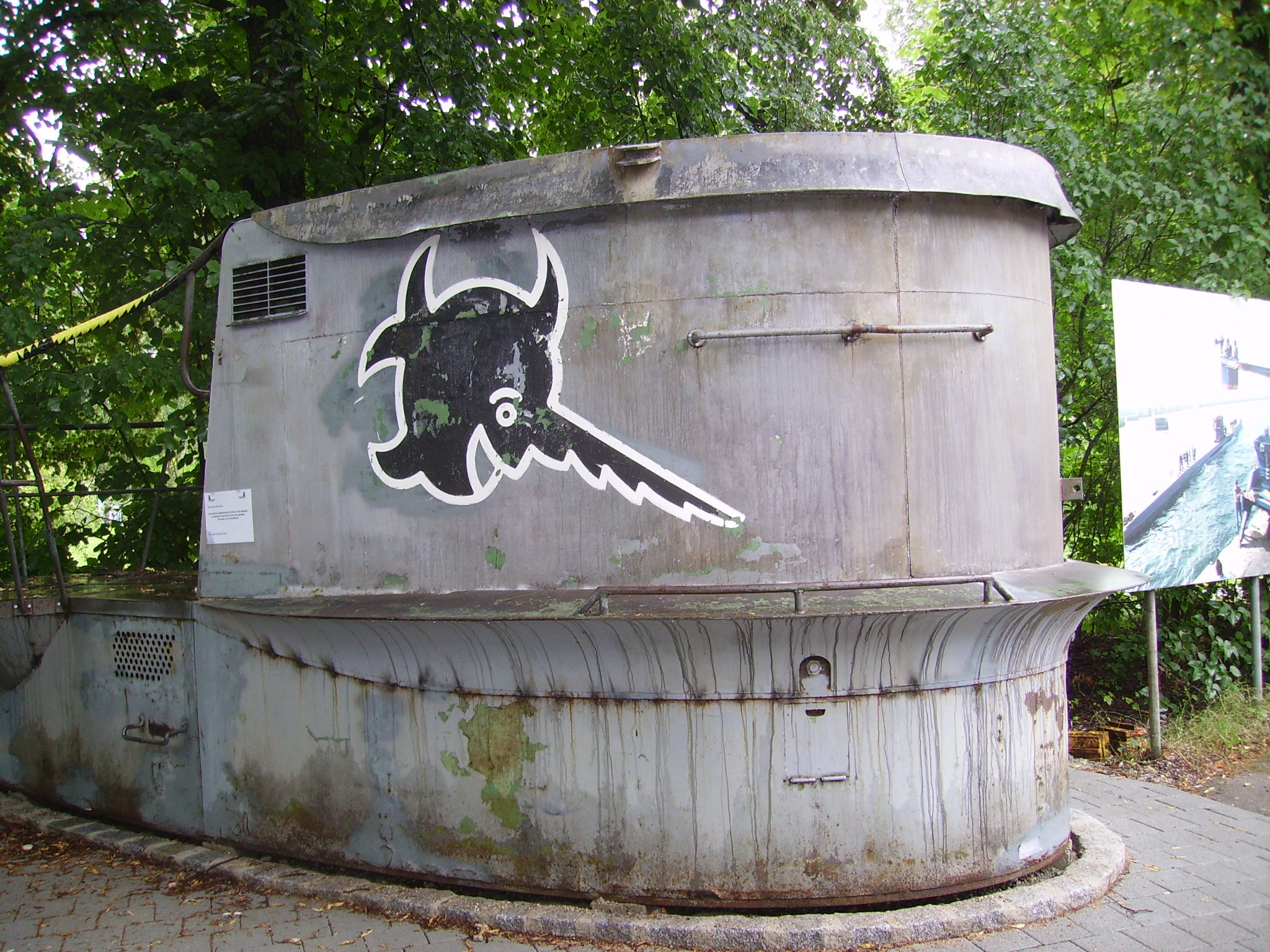 Bavaria Film in Munich, Germany